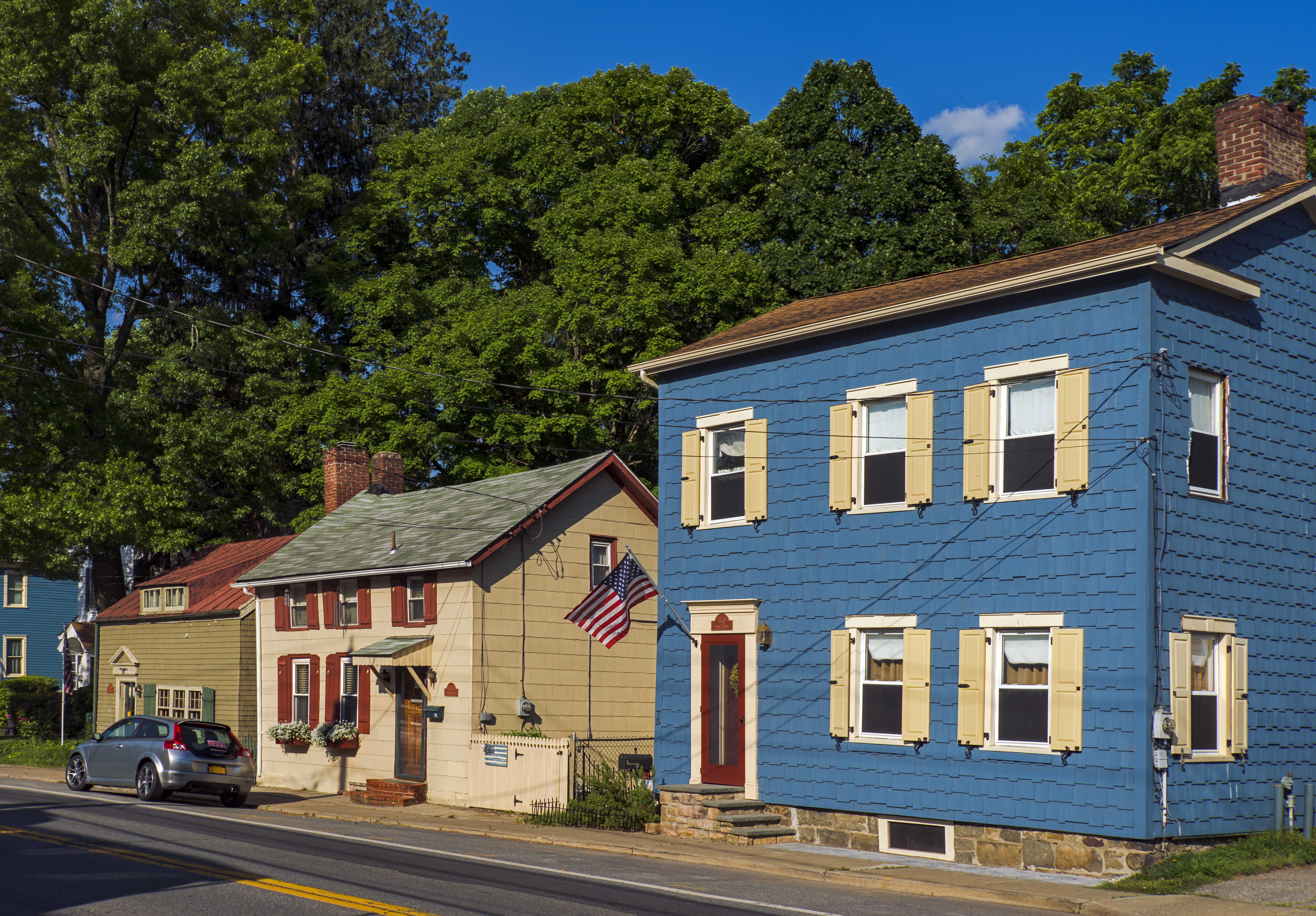 Historic houses along Union Avenue (NY 211) that are contributing properties to the Union Street–Academy Hill Historic District, Montgomery, NY, USA. The house at left, originally the Smith Tavern, dates to 1750, making it one of the village's oldest buildings. The parked car's license plate number has been obscured for privacy reasons.